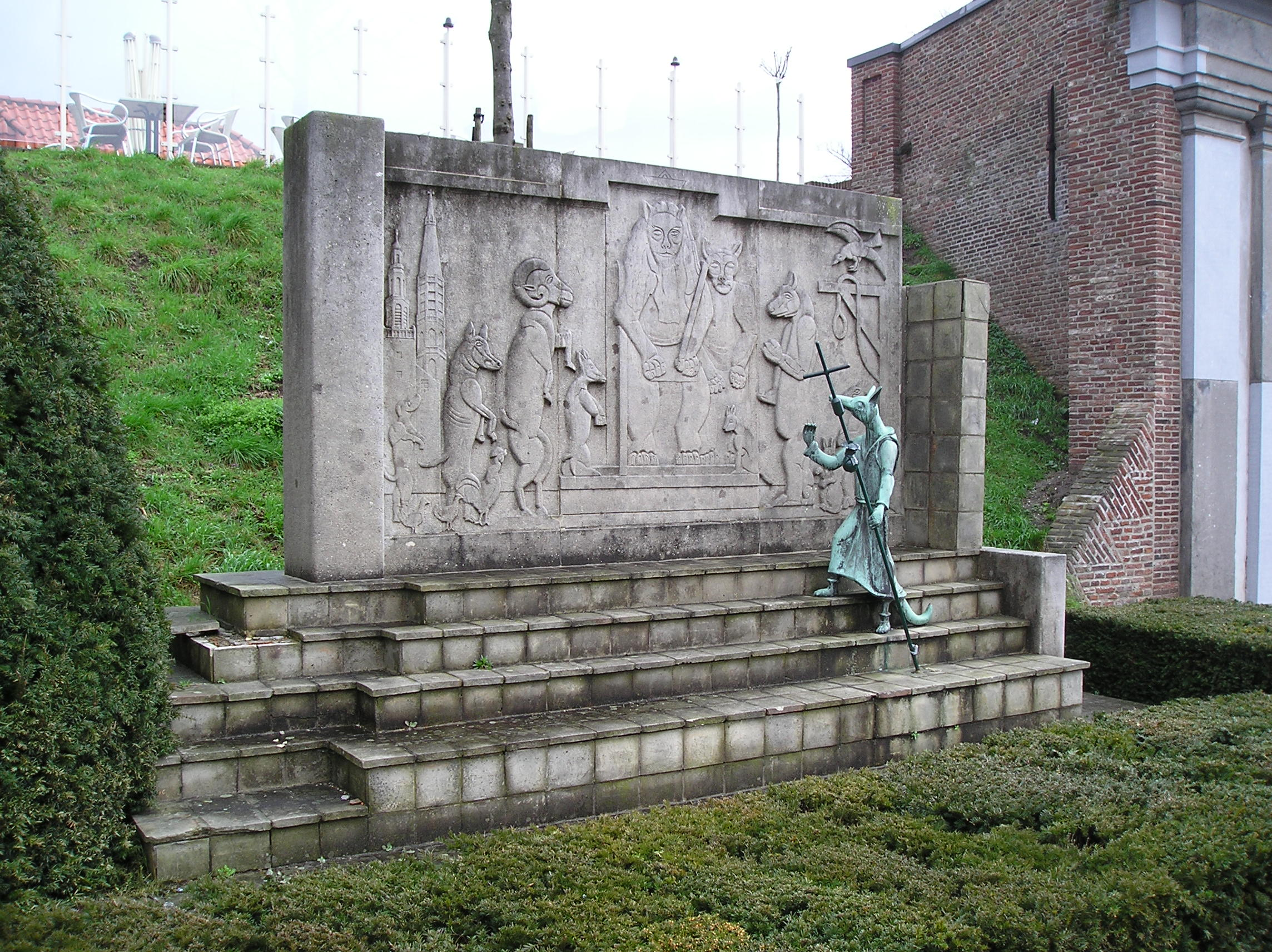 Reynard the Fox (old